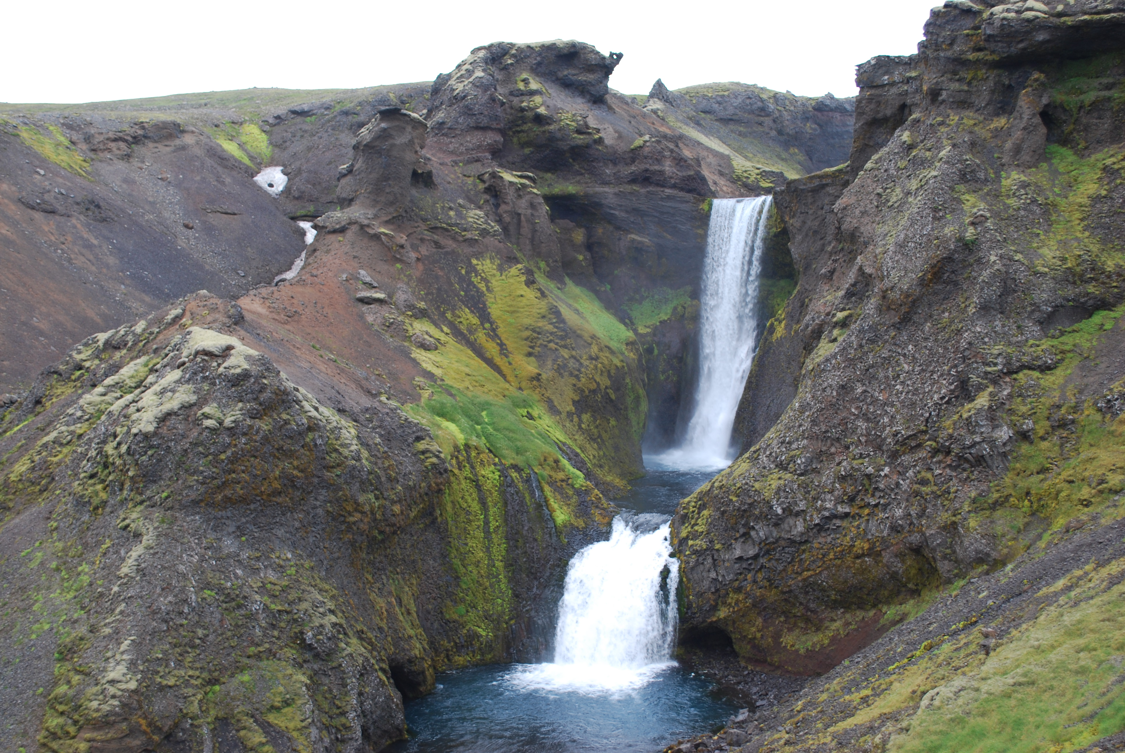 Skóga River on South Iceland near Skogafoss waterfall